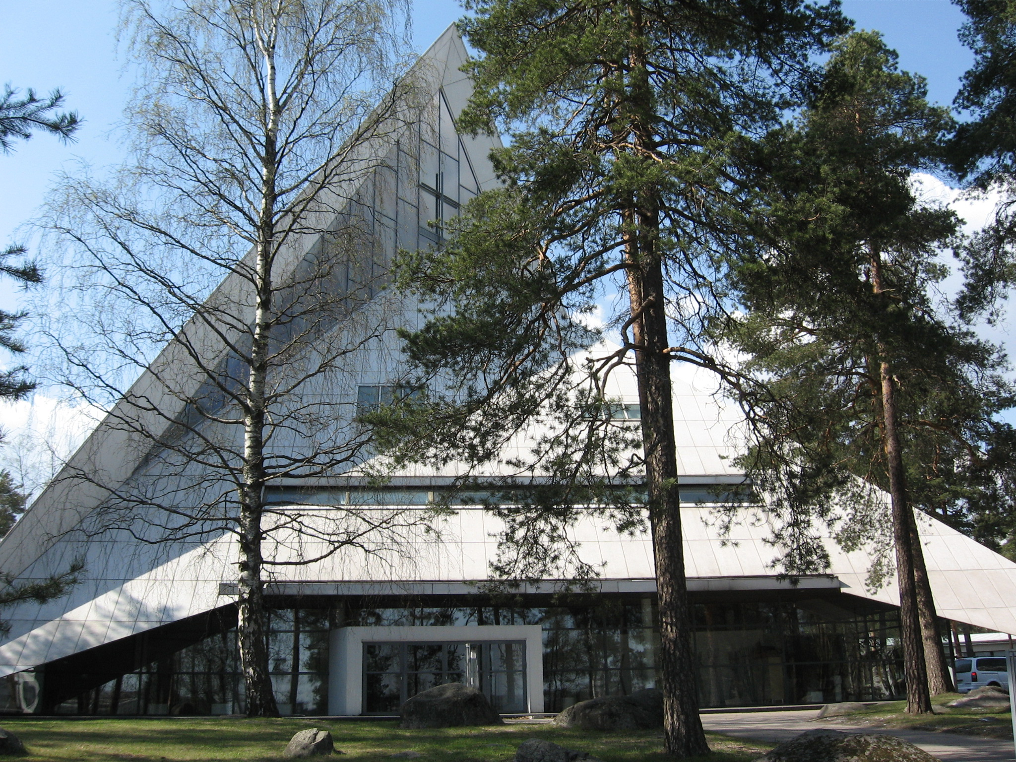 Modernistic church of Hyvinkää, Finland, by architect Aarno Ruusuvuori (1961).